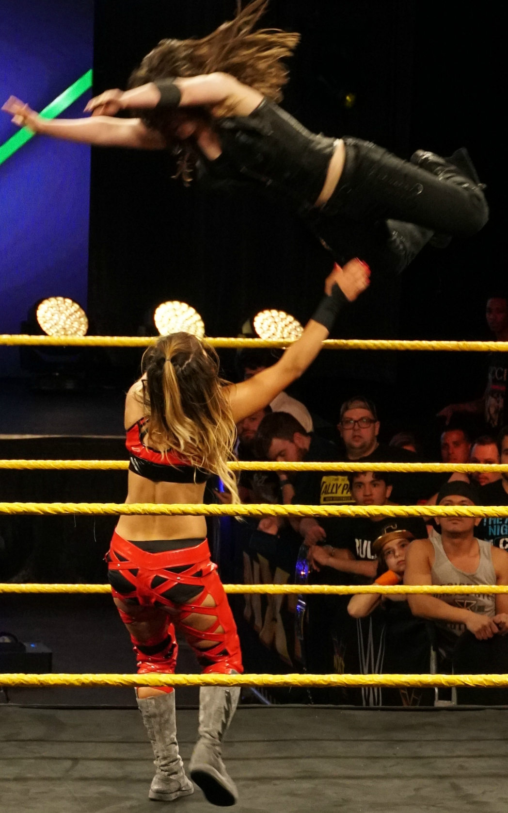 Nikki Cross executing a Diving Crossbody on Aliyah in April 2018